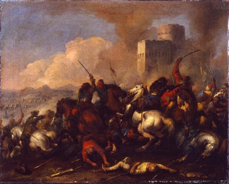 Contrary to the information provided in the catalogue of 1998, this small canvas was not part of the IBI Collection collection but purchased by the Cariplo in 1968 as a work attributed to Simonini. The attribution is confirmed by stylistic analysis, which reveals the quality characteristic of the artist from Parma as the heir to a long tradition stretching from his master Spolverini [link] to the battle-scene painters of the 17th century, above all [File:Courtois Jacques detto il Borgognone, Battaglia.jpg